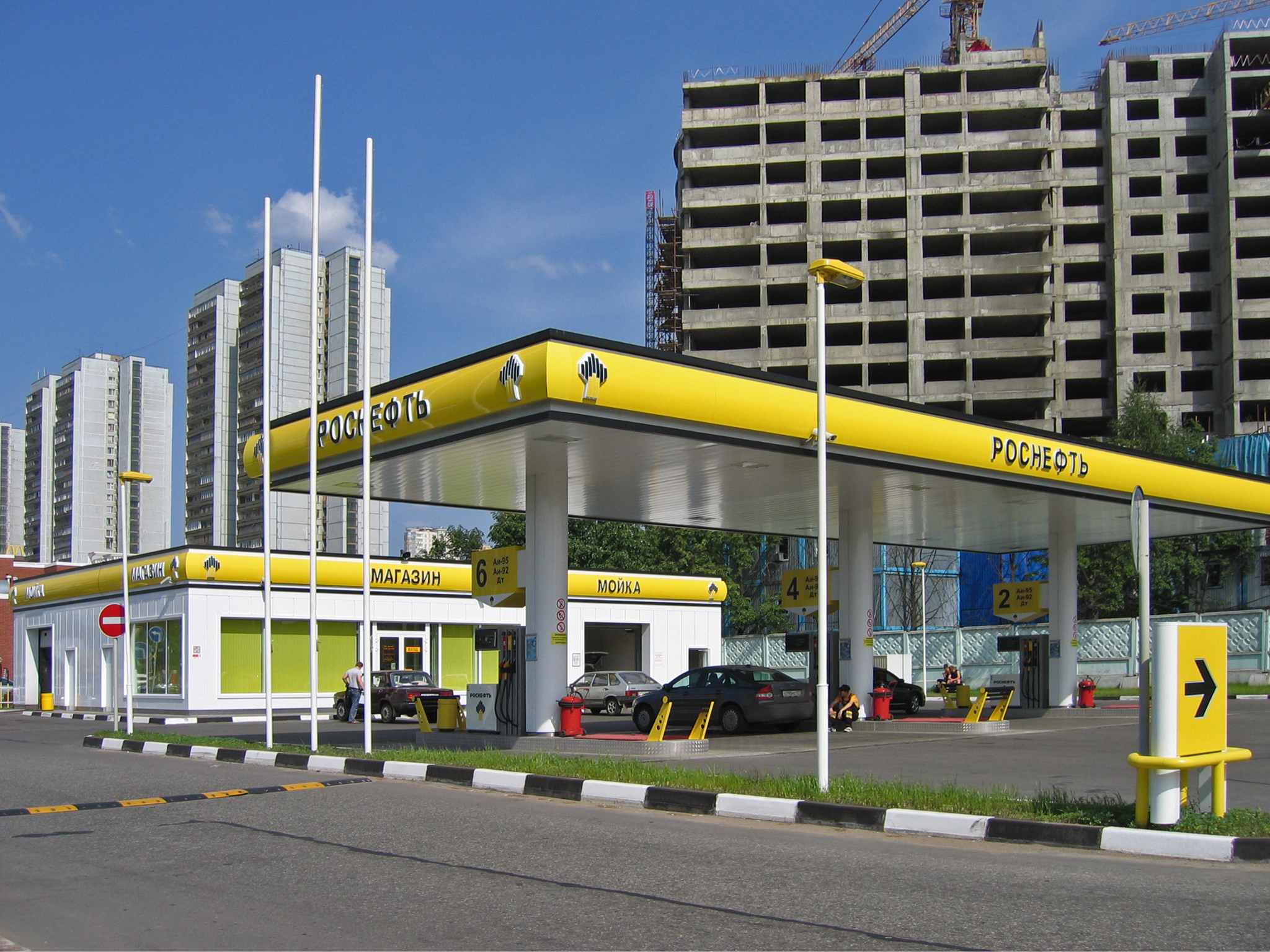 Rosneft petrol station, Moscow